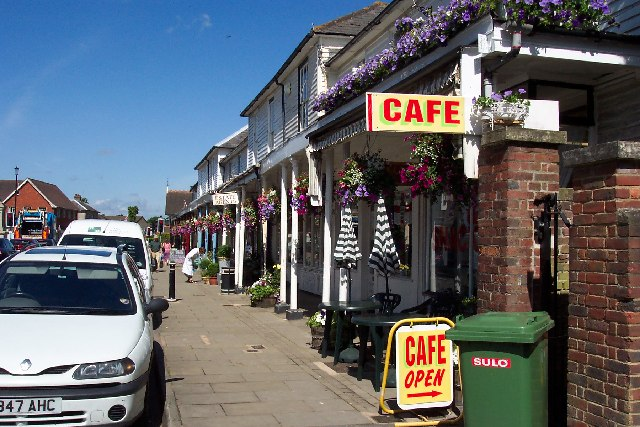 Shops in Hawkhurst, Kent. A colonnaded row of white weather-boarded shops line one side of the road in the Kent village of Hawkhurst.